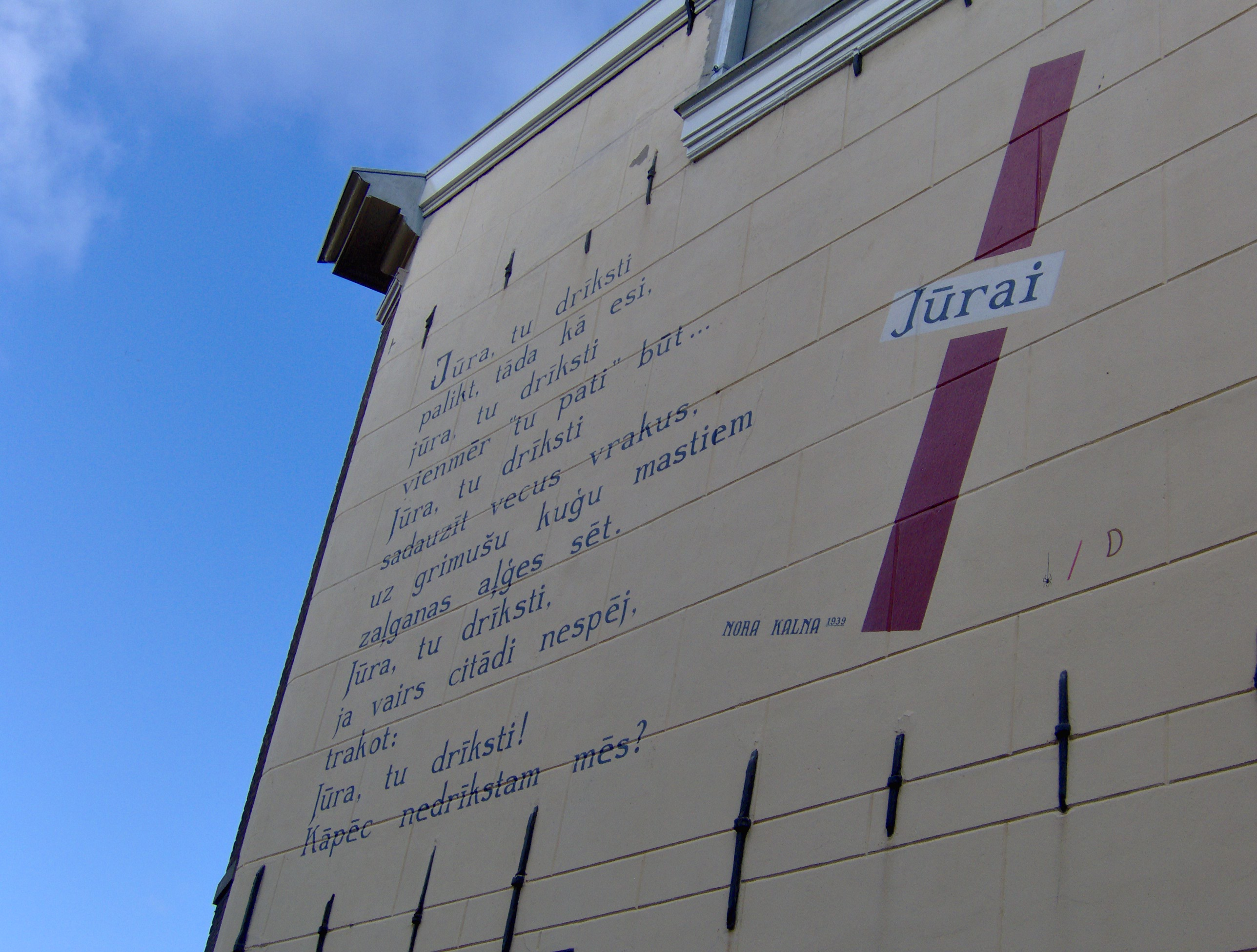 The poem Jūrai (To the sea) of the Latvian poet Nora Kalna on a wall of the building at the Scheepmakerssteeg 2 in Leiden, The Netherlands